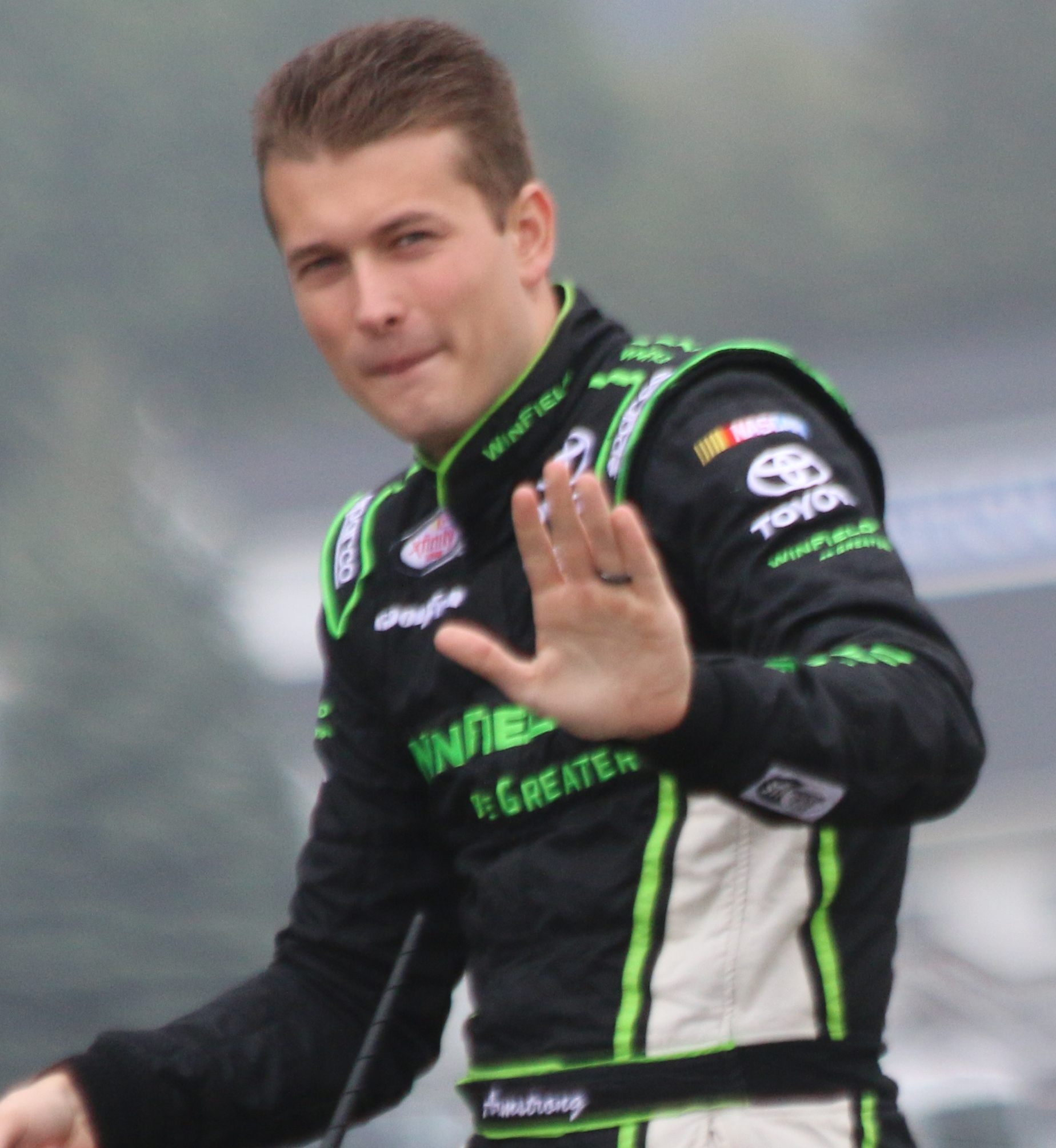 NASCAR driver Dakoda Armstrong at the 2016 Road America 180.